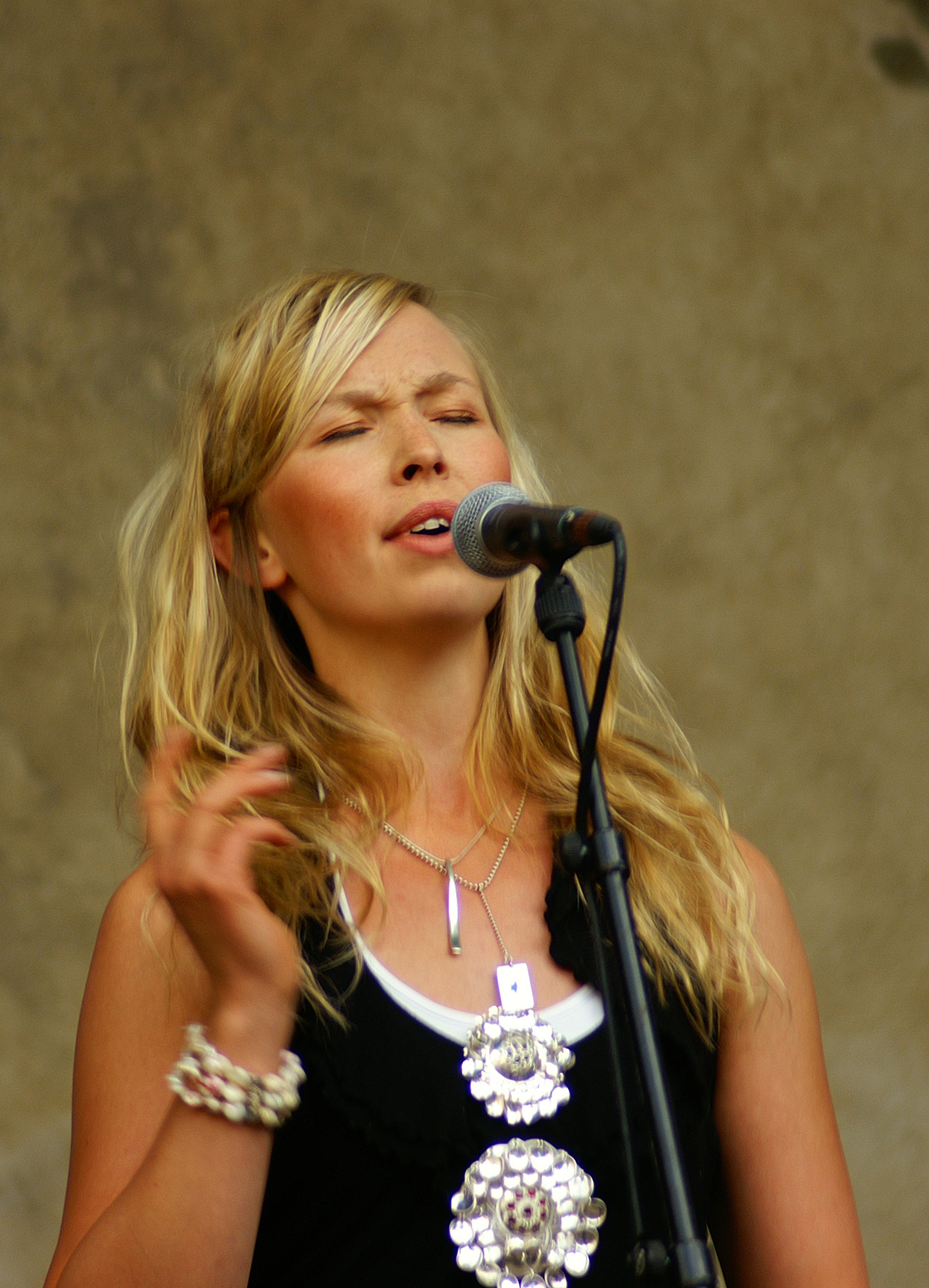 Sofia Jannok live at the Centre Culturel Suédois (Paris, France).